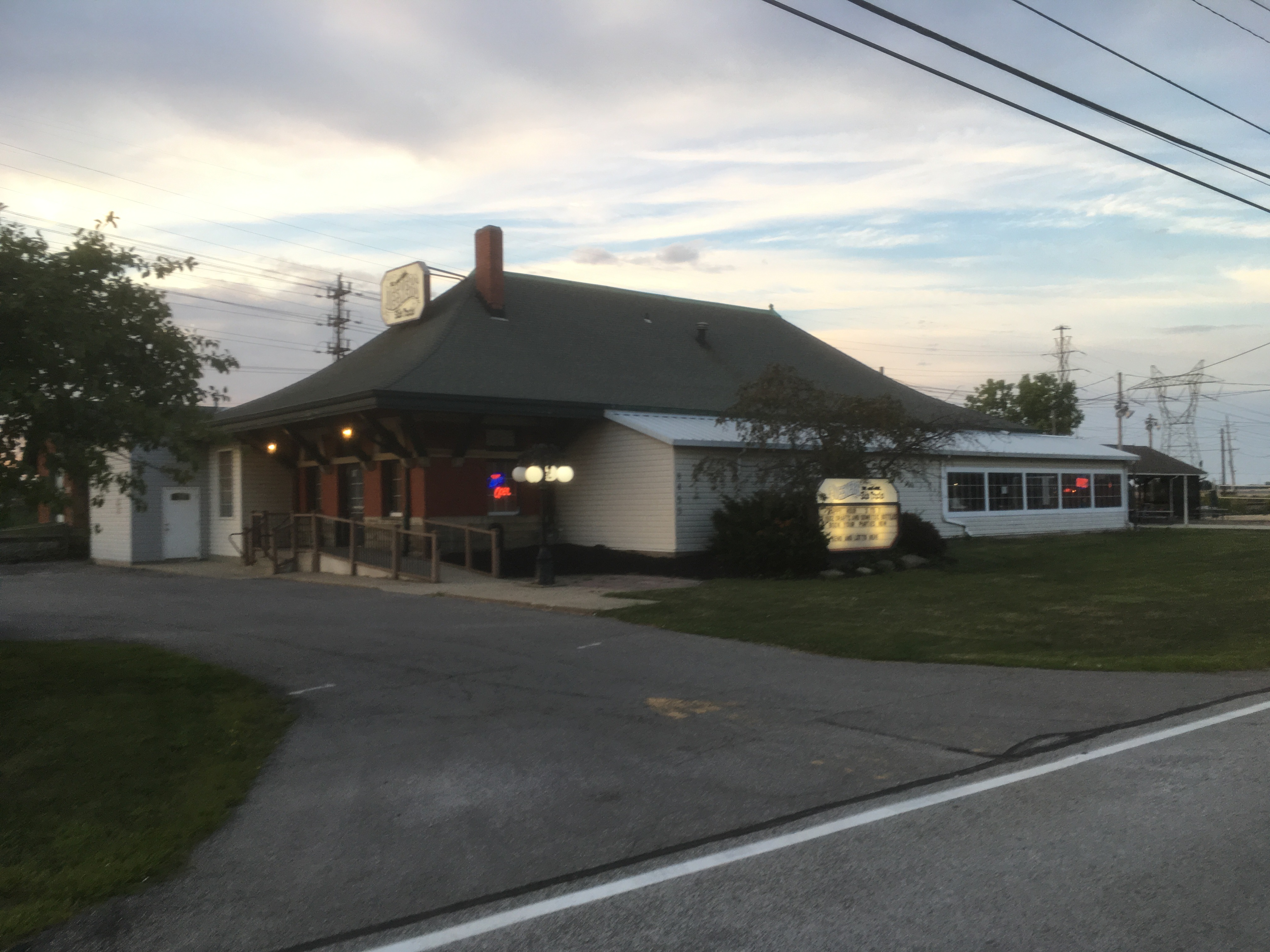 Mentor (Lake Shore & Michigan Southern)